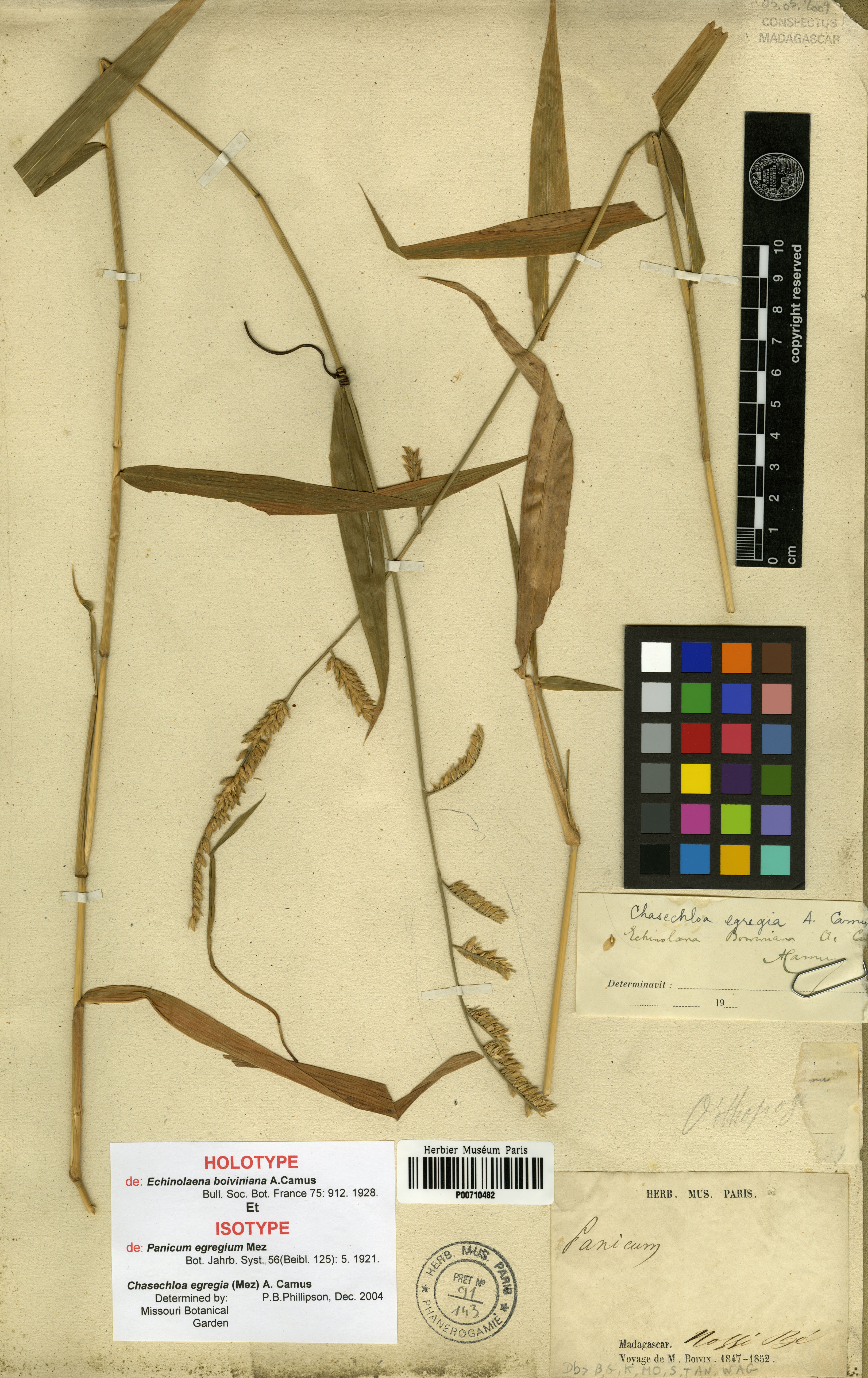 Holotype specimen of Chasechloa egregia (syn. Echinolaena boiviniana, Panicum egregium), kept at the Muséum national d'histoire naturelle in Paris (catalogue number P00710482). Collected 1851 by L.H. Boivin on Nosy Be island, Madagascar.